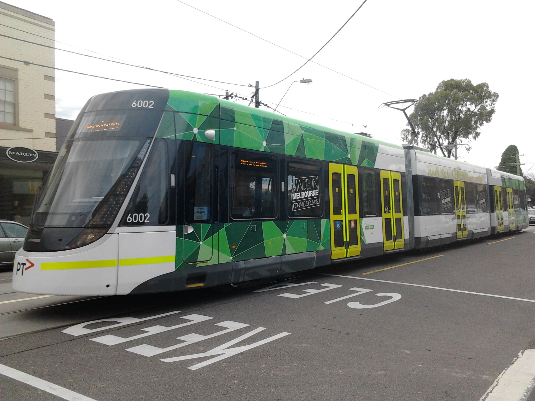 Tram was on a test run along the route 48 tracks.